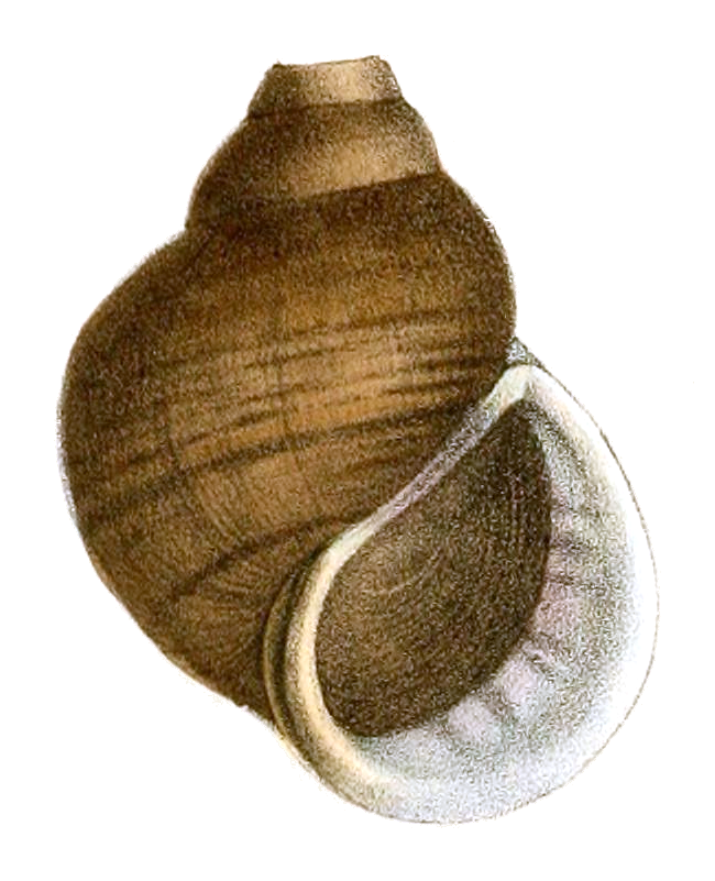 Drawing of an apertural view of a shell of Asolene petiti.